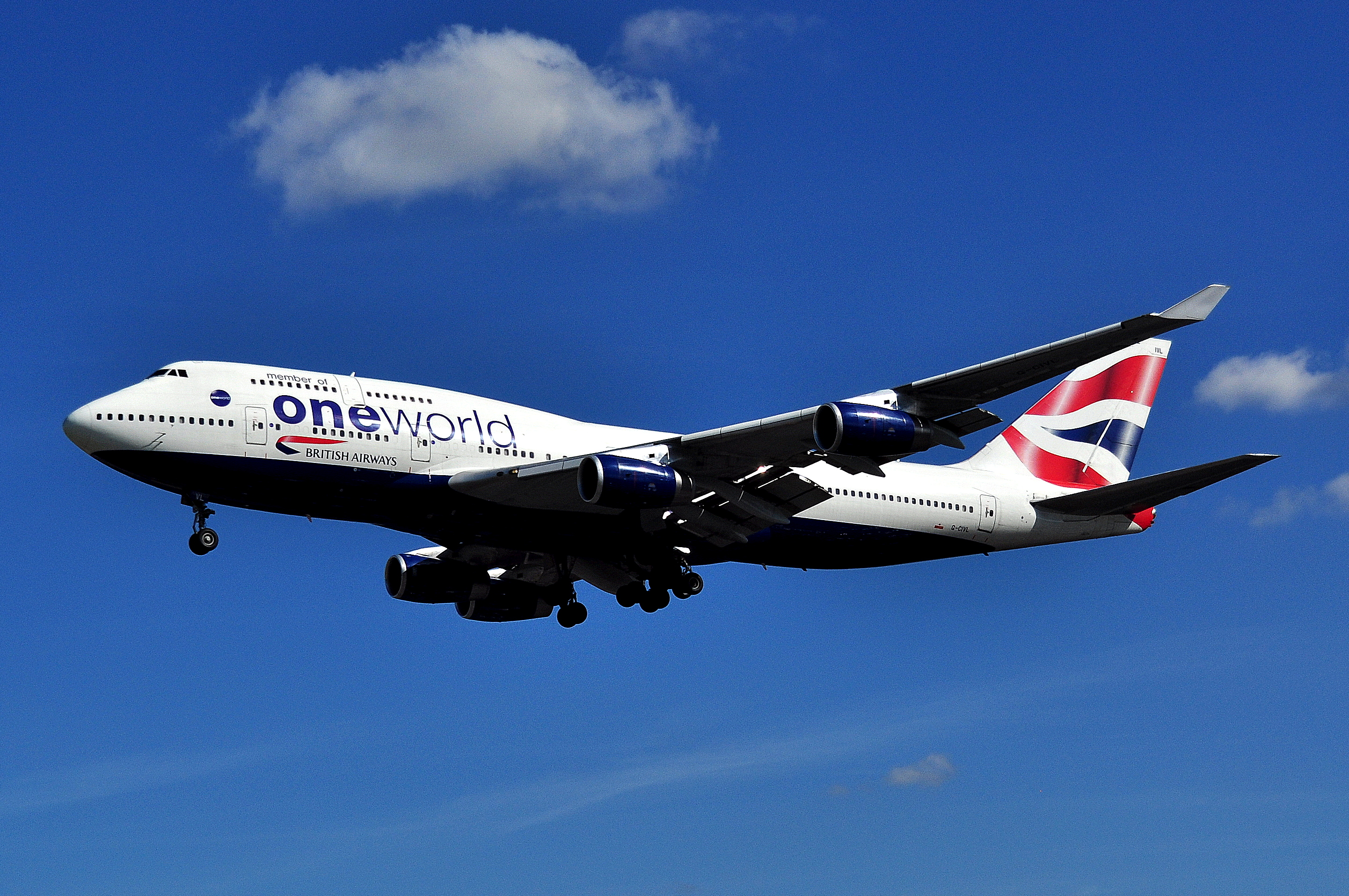 Boeing 747-436 - British Airways (reg:G-CIVL)